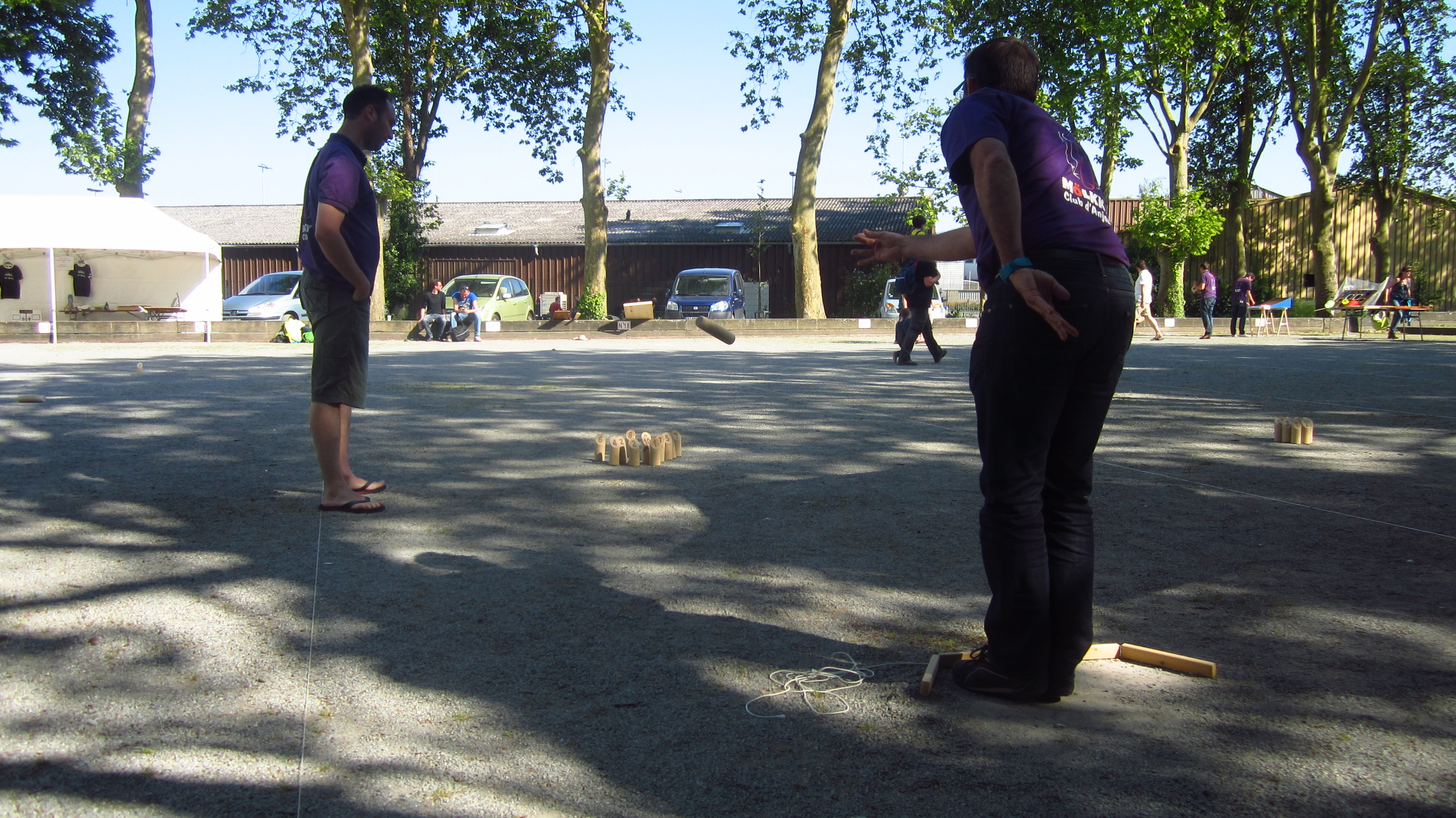 Mölkky competition in Nantes, France